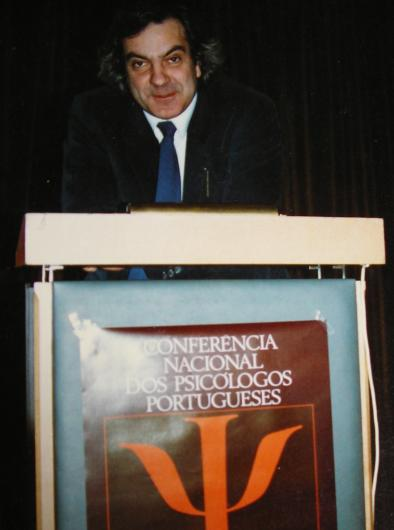 Rodolphe Ghiglione in Portugal